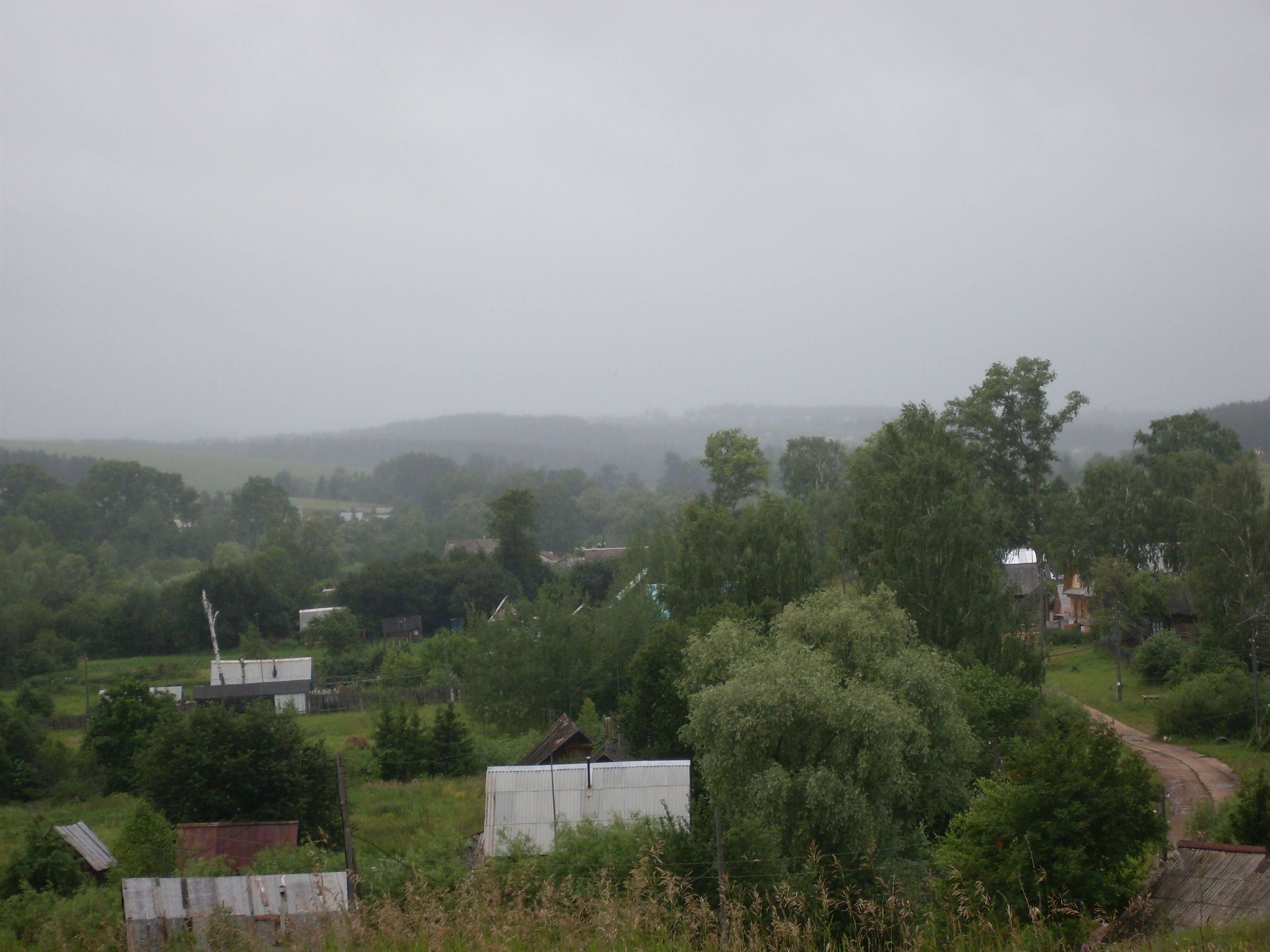 Kolyshevo.